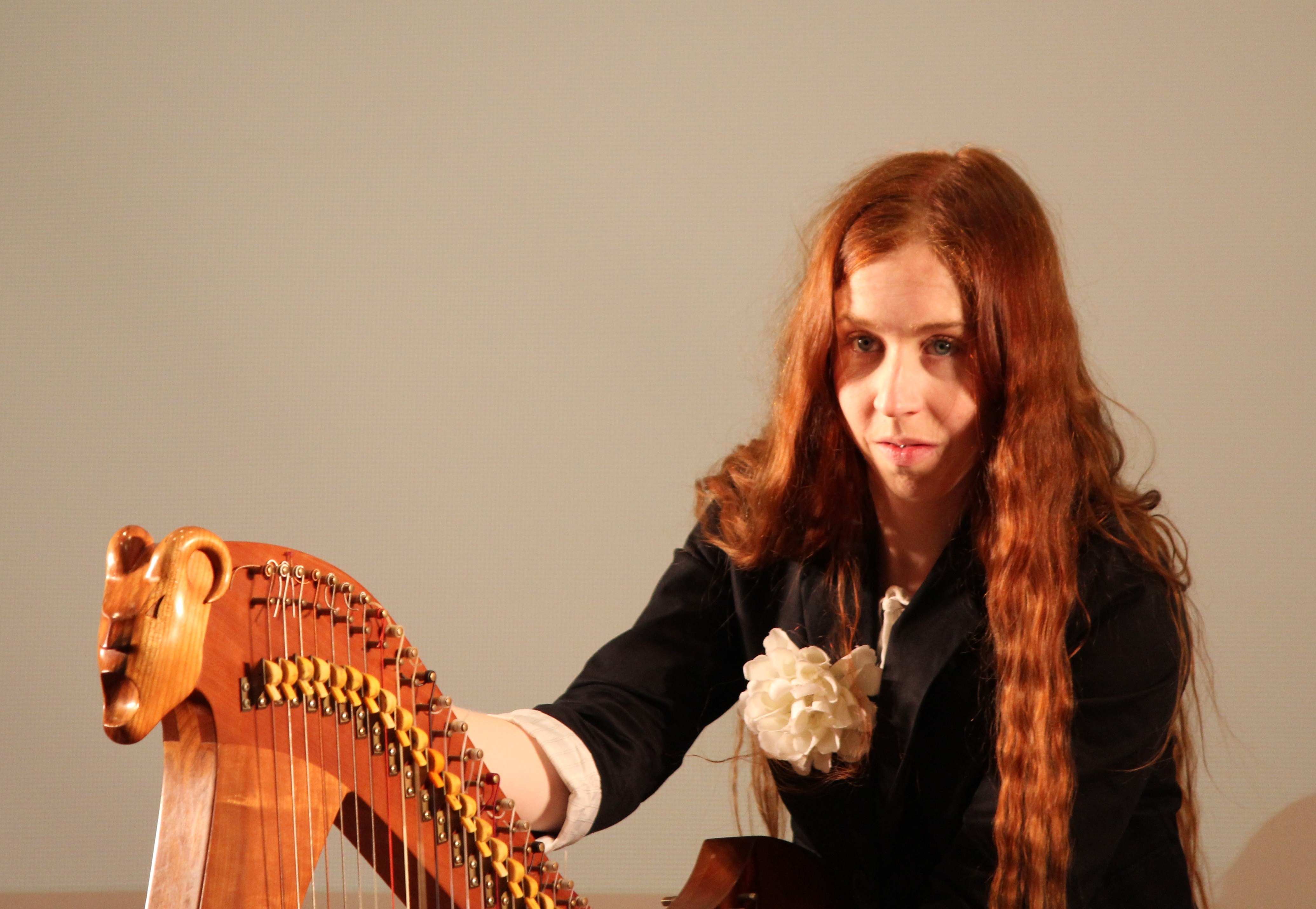 Cécile Corbel during a show held in Tôkyô for the St-Yves 2010